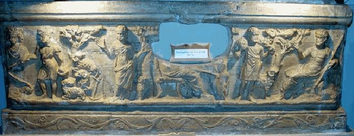 Le sarcophage de la Gayole (IIIe siècle) Musée de Brignoles (Var). Sarcophage , gauche pêcheur et ancre - droite, Bon Pasteur